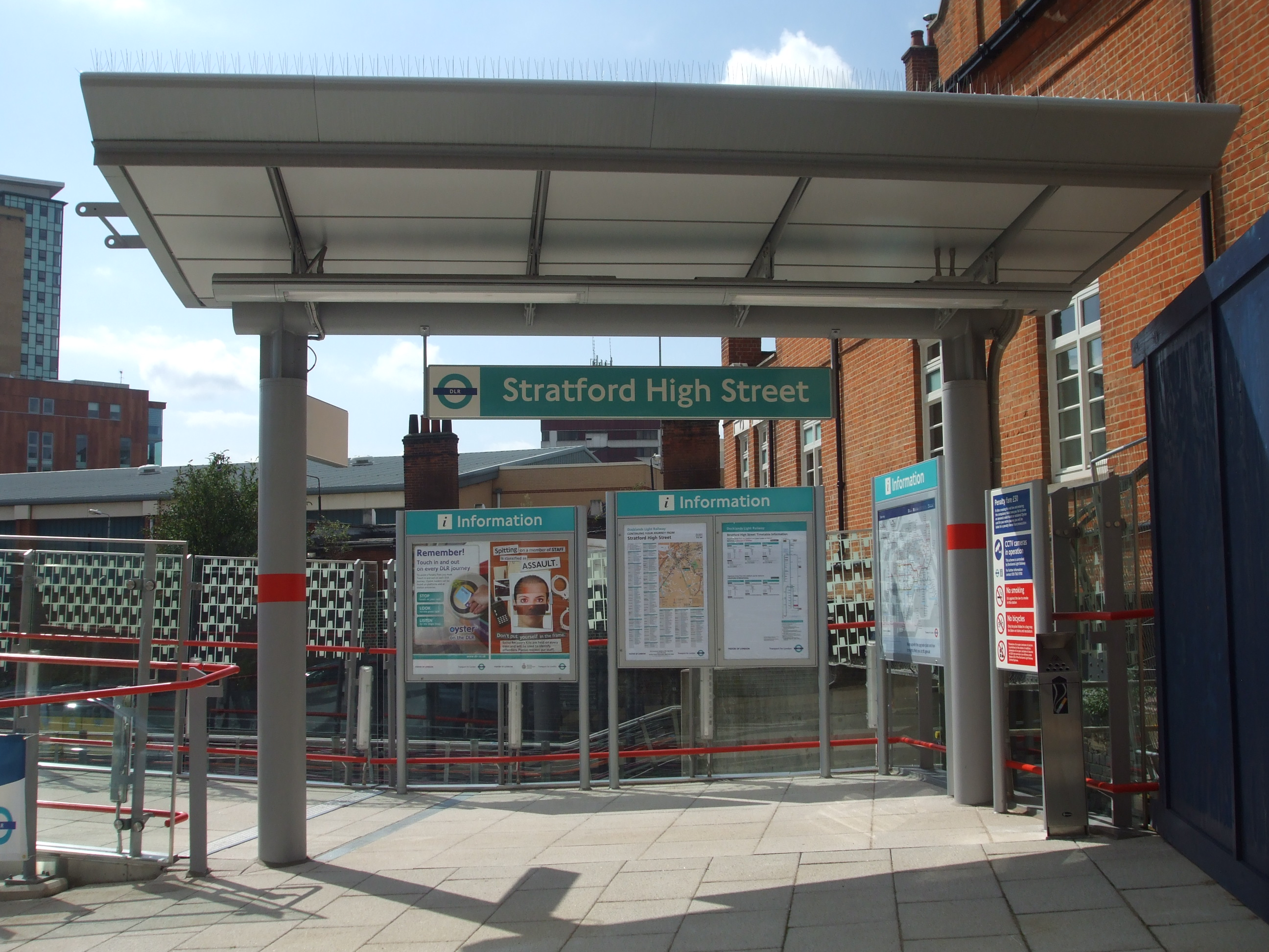 Stratford High Street DLR station north entrance. The station lies on the site of the former Stratford Market main line station. The former building of the latter can be seen on the right.